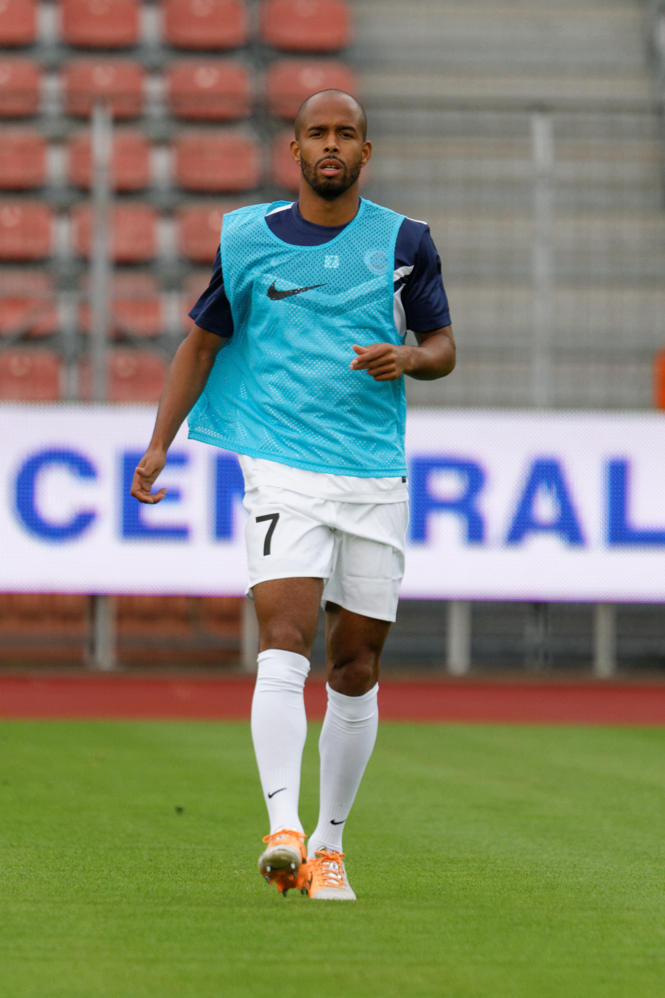 Créteil vs Châteauroux, 8th August 2014.